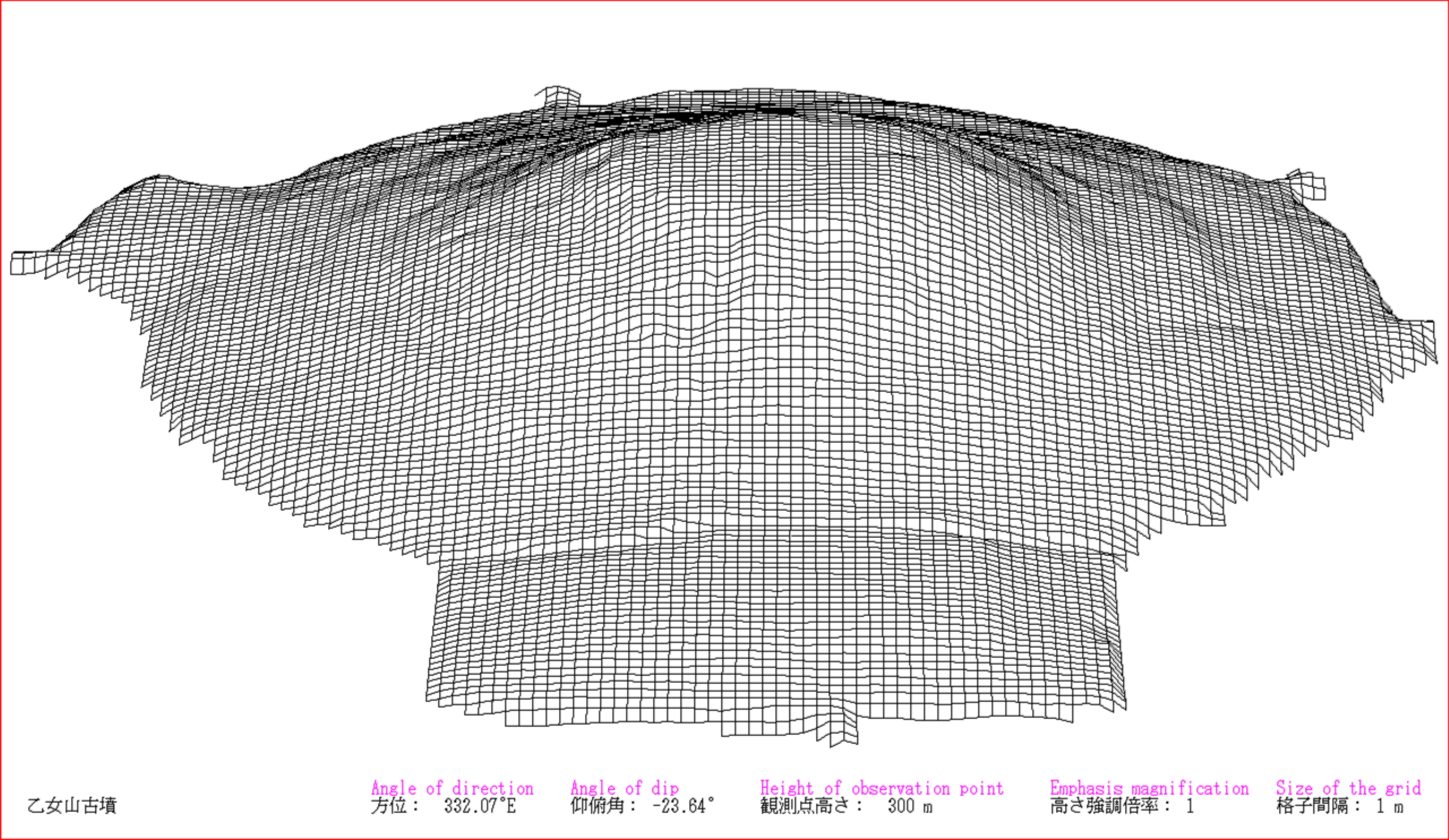 I who am a contributor drew the picture by a software which developed by myself. The survey map which I referred to depends on "奈良県立橿原考古学研究所編『史跡乙女山古墳 付高山2号墳 範囲確認調査報告』河合町教育委員会（1988年）". This is a drawing of present situation (not a drawing of a restored mound). The drawing depends on wire frame. Perspective projection.